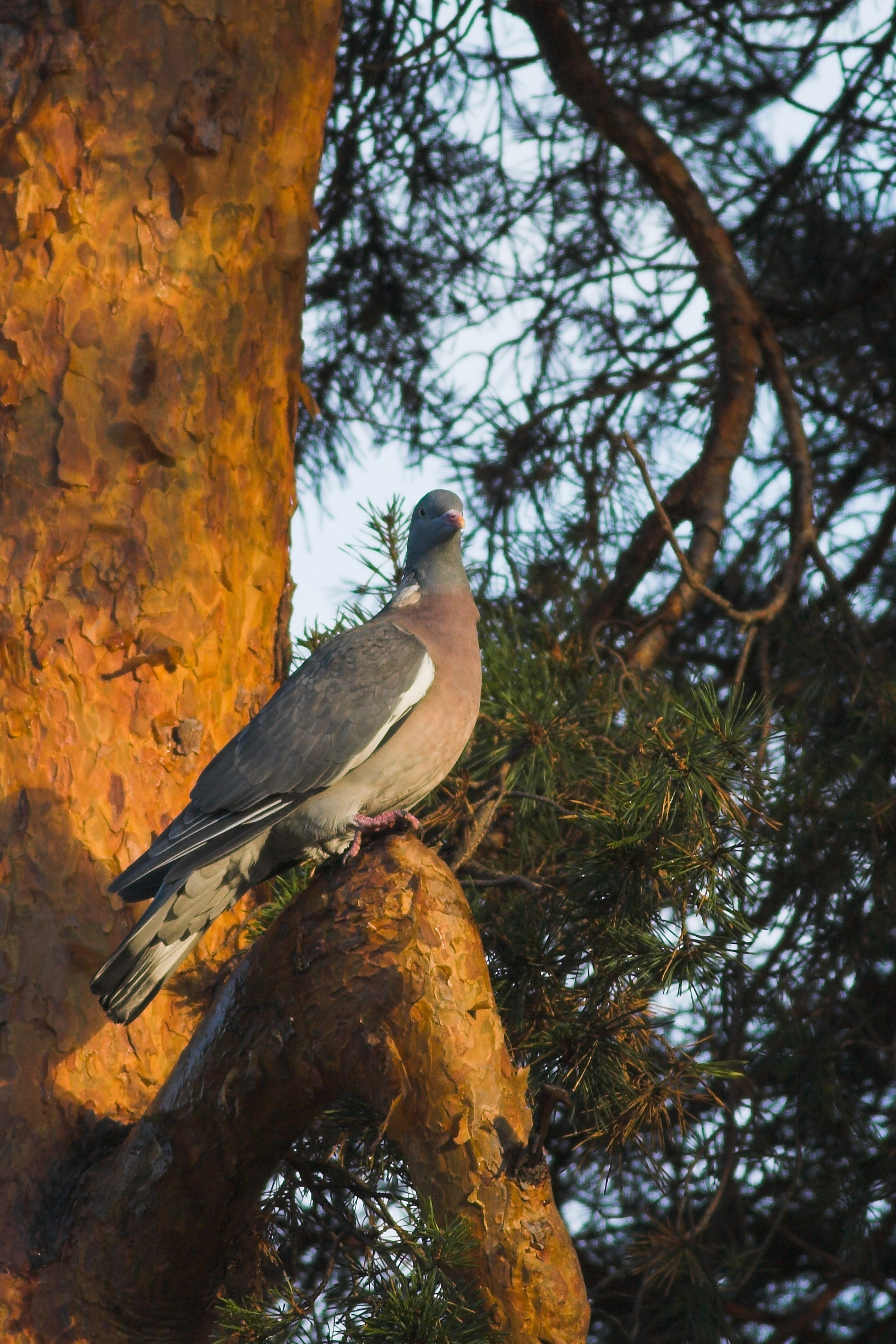 Columba palumbus sitting on a tree. Photo by Thermos.